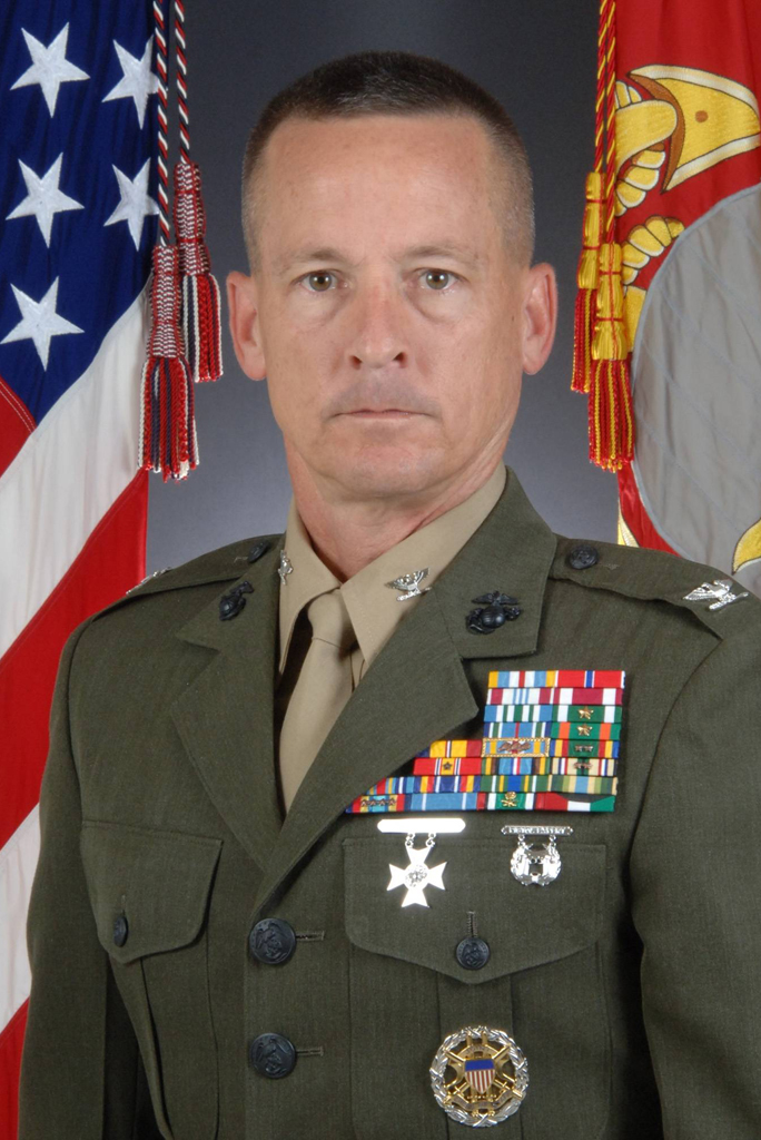 Brigadier General William M. Faulkner